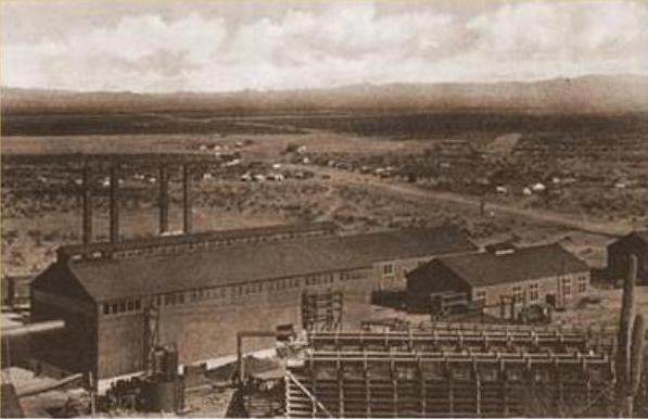 The Sasco Power House with the town of Sasco, Arizona, in the background, sometime between 1907 and 1921.